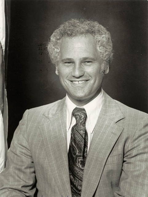 Neil Goldschmidt from: US Dept. of Transportation